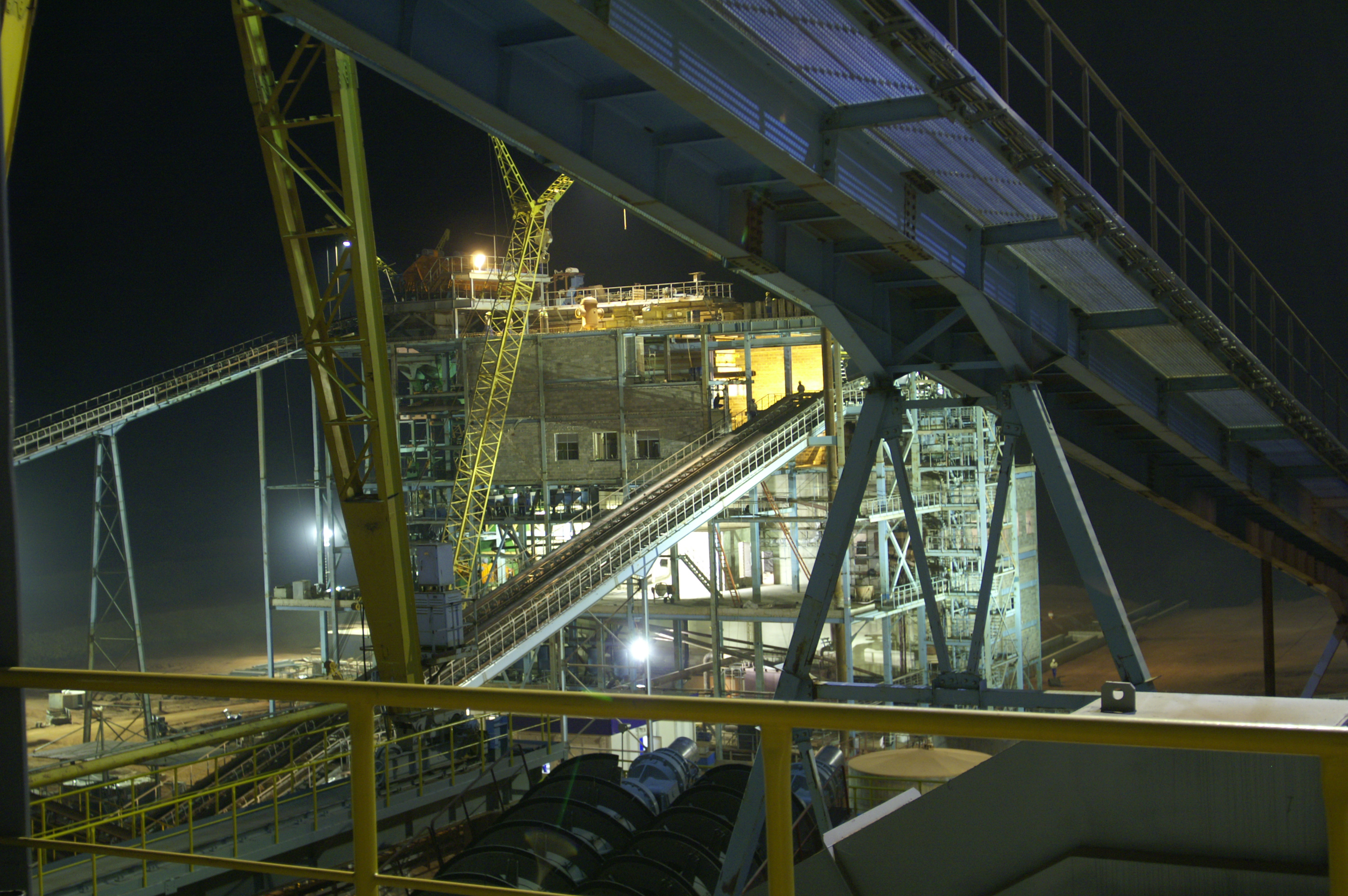 Catoca mine, refining factory